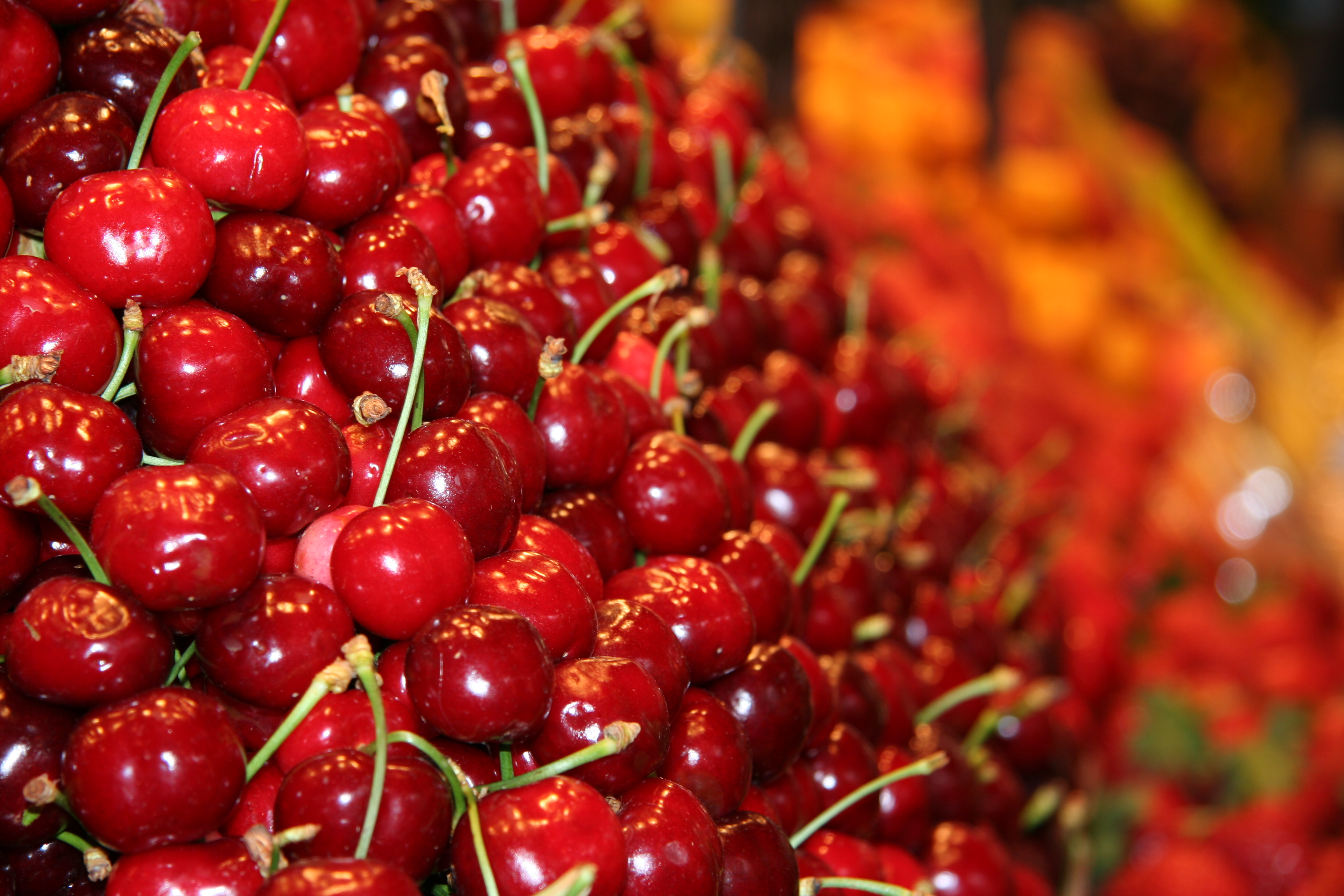 Philadelphia cherries, stacked and on display for sale on a market in Barcelona, Spain. Created by Michael Ströck (mstroeck) in May 2006. Released under the GFDL.